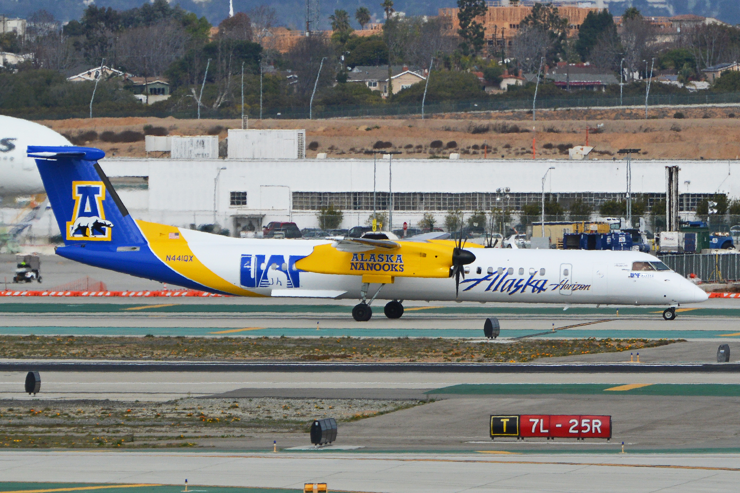 In 'Alaska Nanooks' special scheme. c/n 4348. Built 2010. Seen taxiing in at LAX. Taken from the Imperial Hill spotting location. Los Angeles, California, USA. 08-2-2014